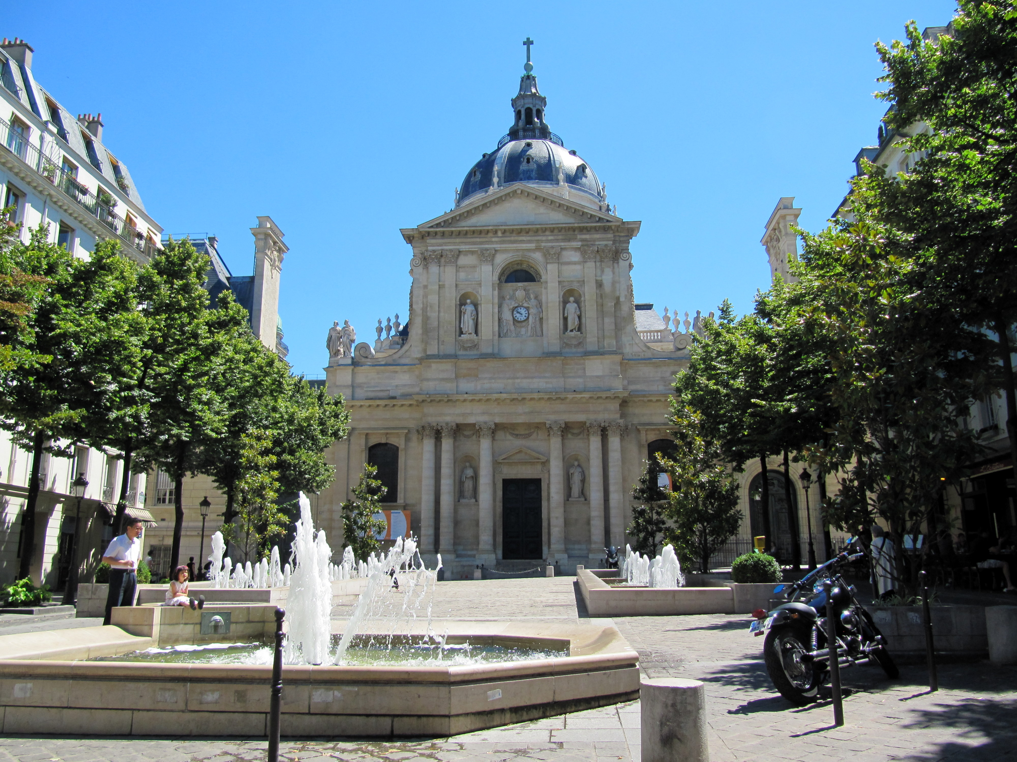 Sorbonne University in the Quartier Latin in Paris